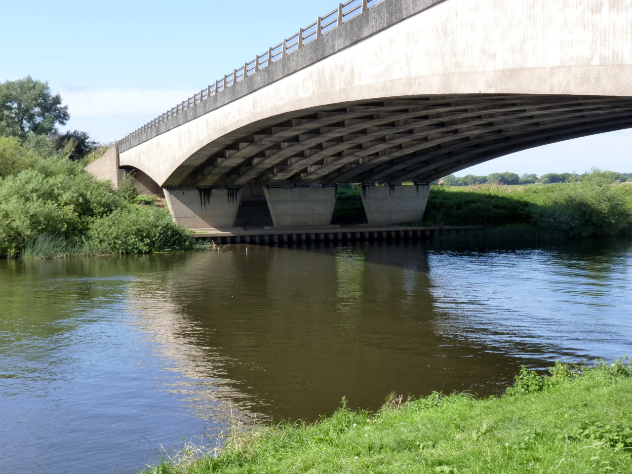 Winthorpe Bridge, South Muskham, Nottinghamshire